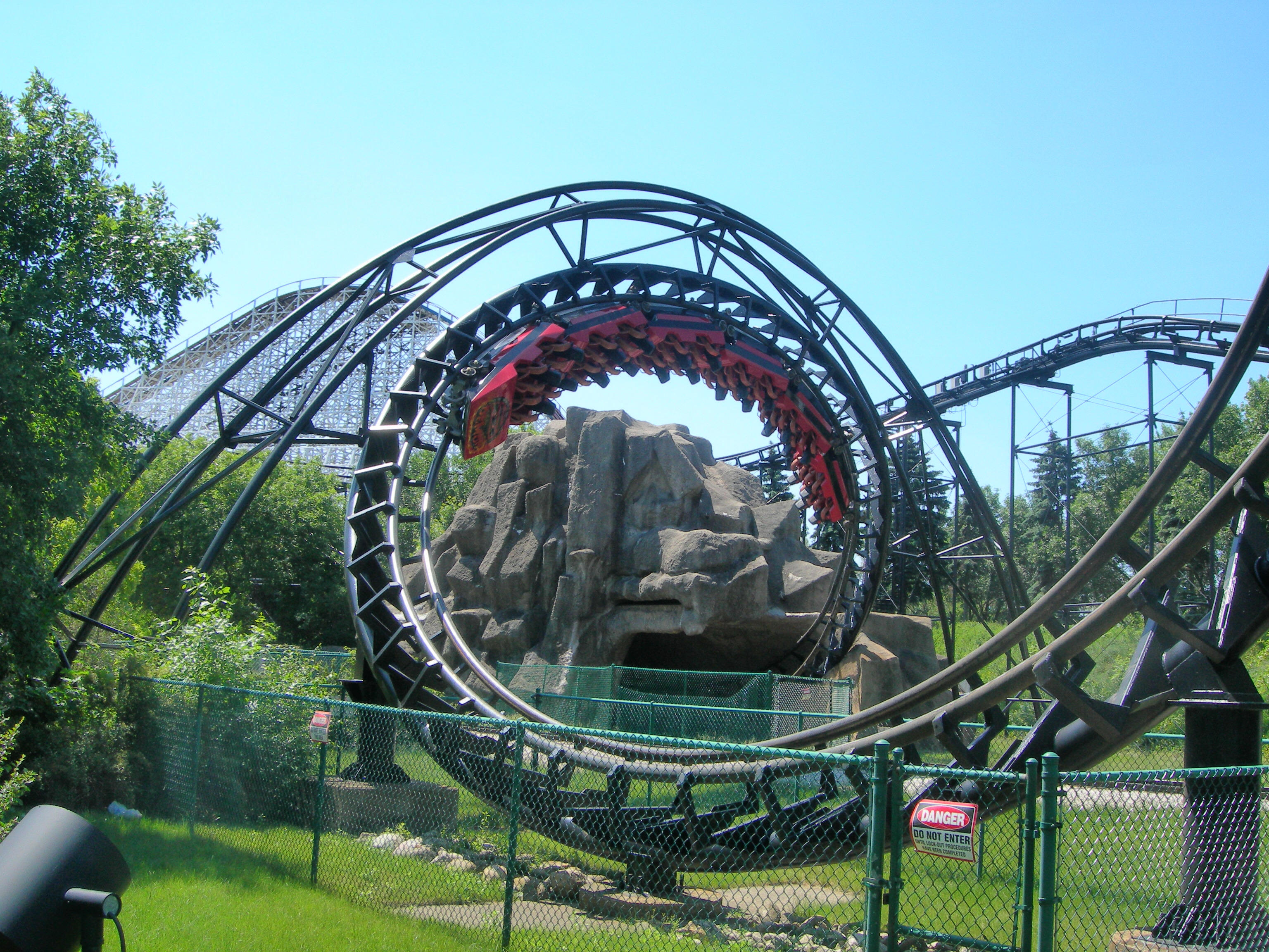 The Demon